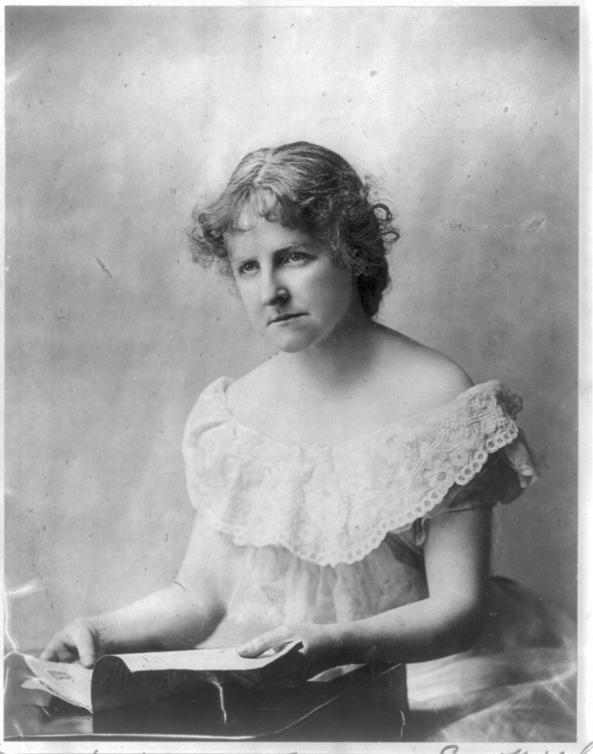 Title: Mary Eleanor Wilkins Freeman, 1852-1930, 1/2 length portrait, seated at small desk or table, facing left Abstract/medium: 1 photographic print.